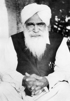 This is a portrait of Sant Kirpal Singh taken in 1972. Author is unknown, the image donated. The image was provided by Ruhani Satsang USA and is considered public domain. No copyright is claimed by Ruhani Satsang as all of Sant Kirpal Singh's works and images are in the public domain. However, they are the ostensible owners of the image and have given explicit permission.